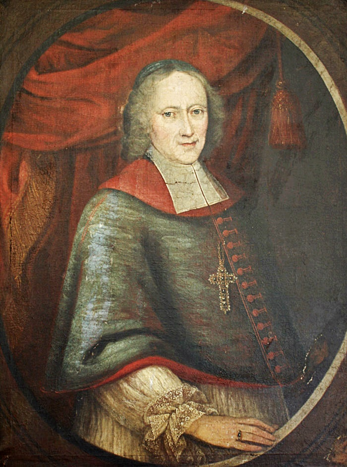 Portrait of Kaspar Ignaz von Künigl (1671-1747)